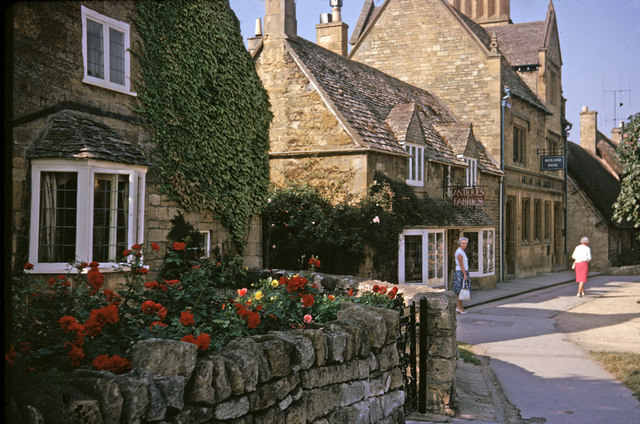 Broadway, Worcestershire taken 1964